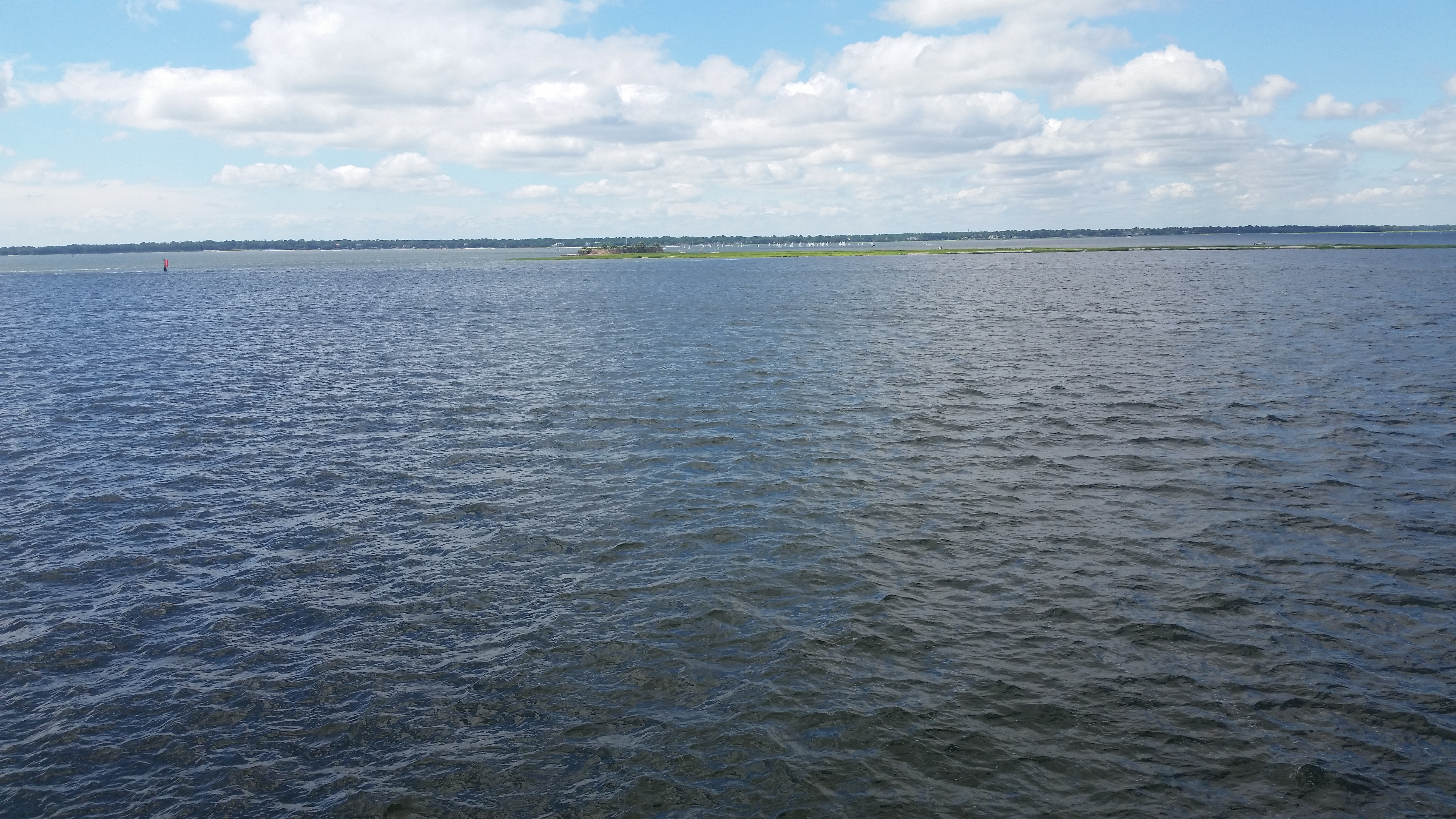 Castle Pinckney remains in 2017